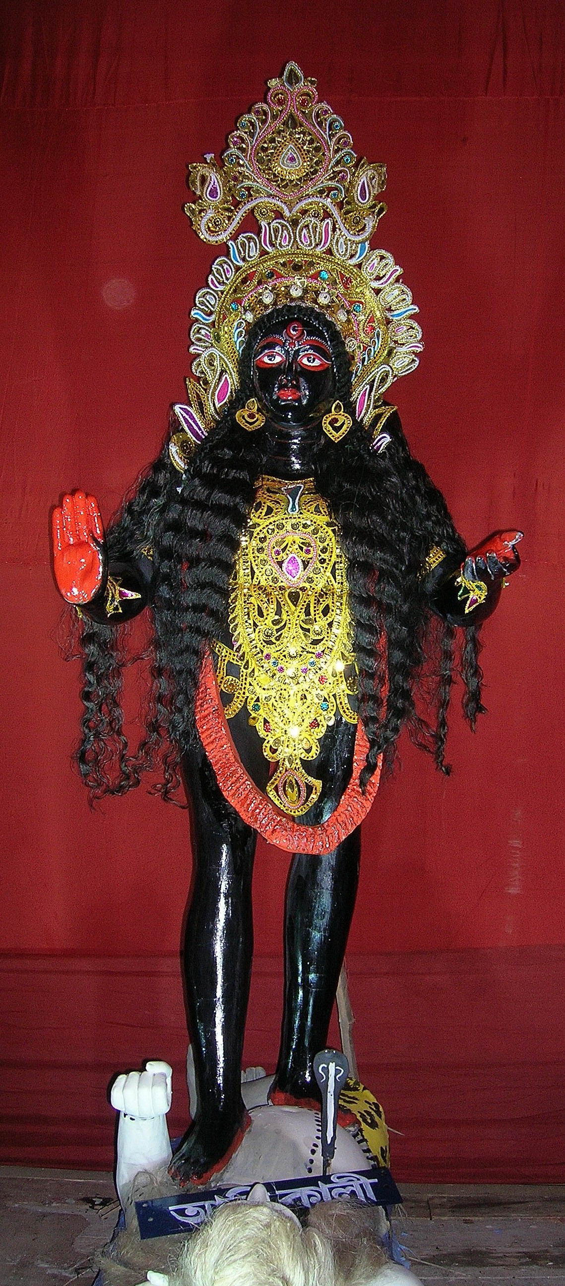 Adi Kali, at a Kali Puja pandal in South Kolkata